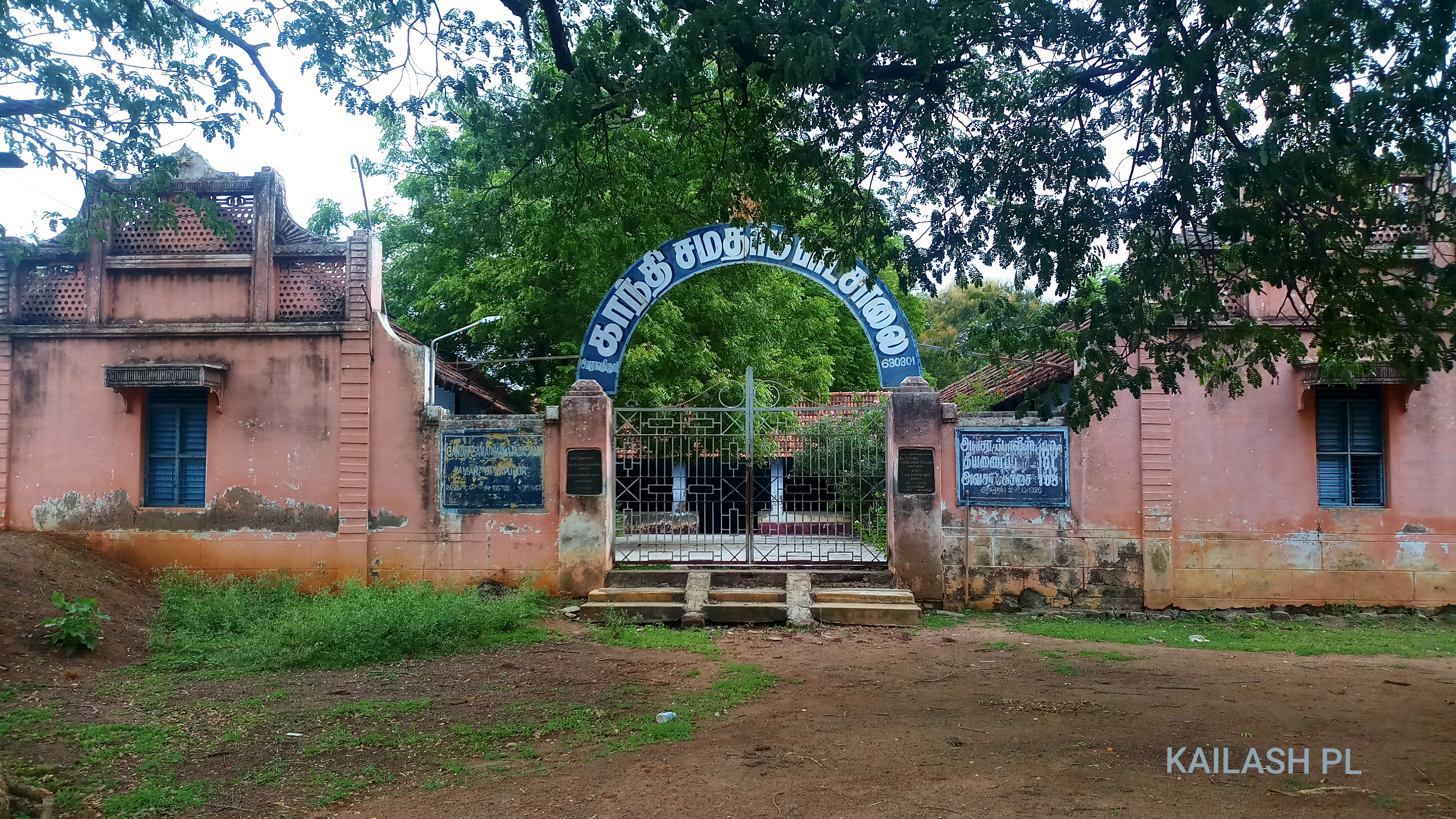 This photo was taken by me (Kailash PL)